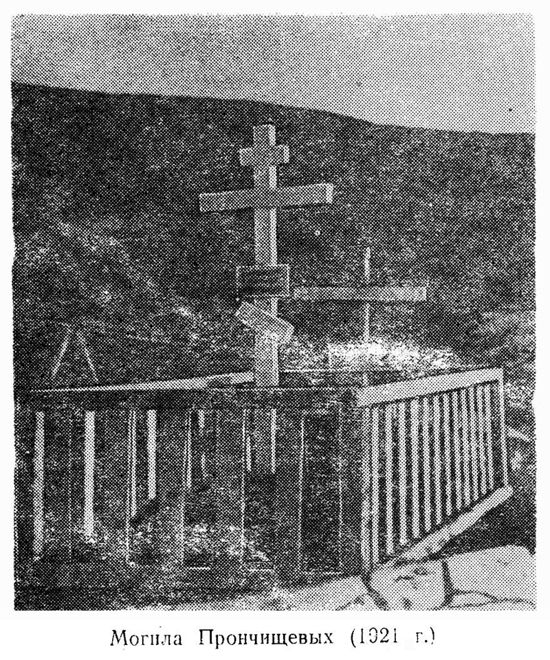 This is old foto of tomb of Vasili and Tatiana Pronchishchev. It was made in Ust Olenek, Yakutia, Russia in 1921. Now this tomb is changed after exgumation 1999 year